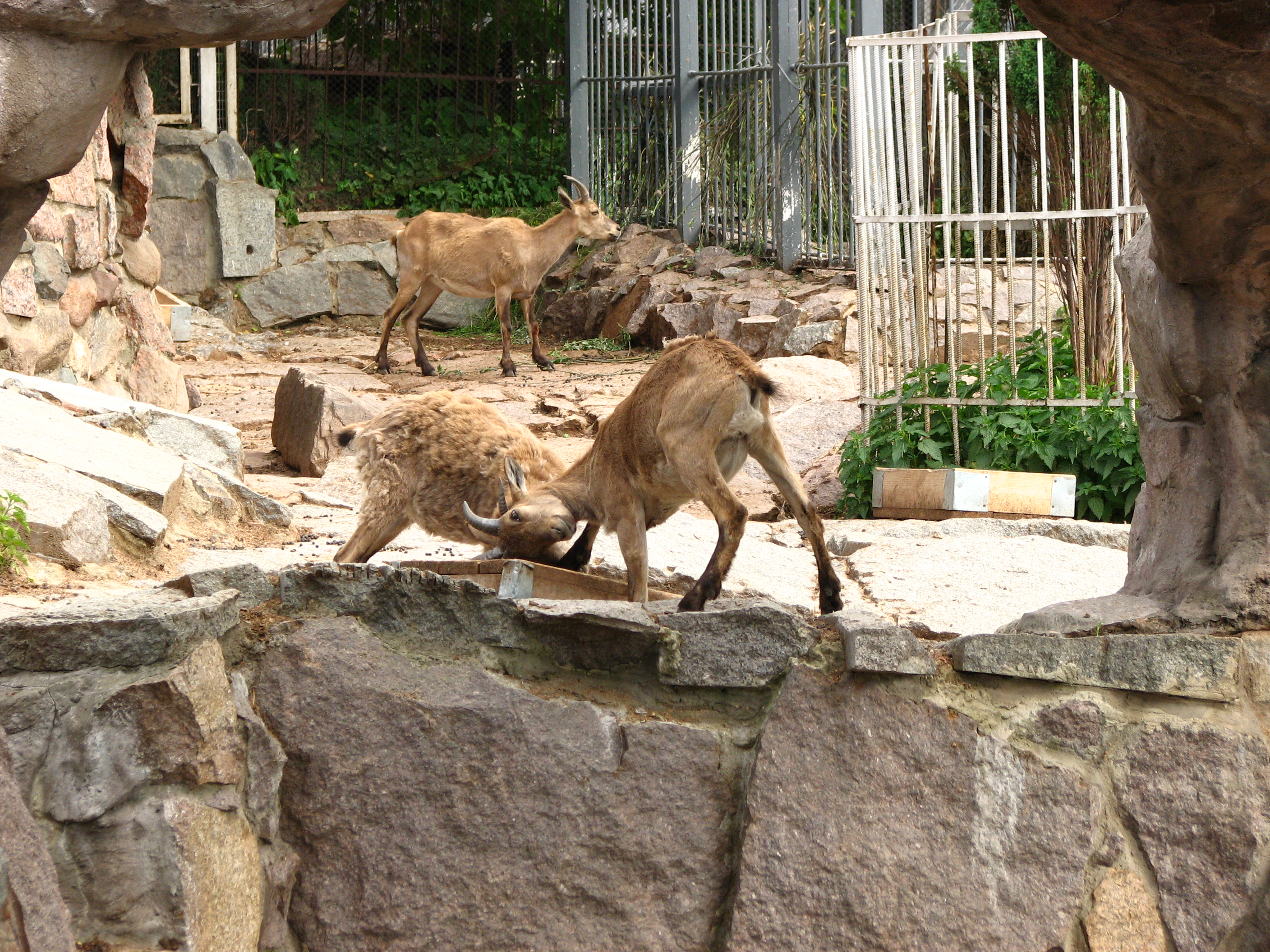 Moscow Zoo. East Caucasian Tur (Capra cylindricornis; young growth).